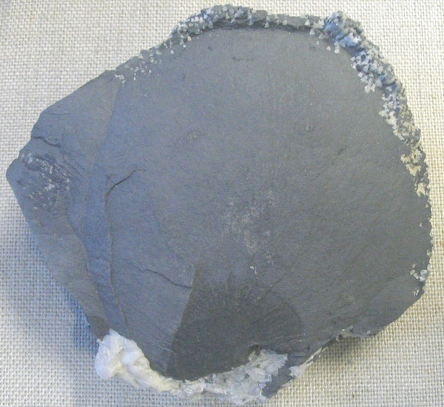 Massive native arsenic with quartz and calcite, from Ste. Marie-aux-mines, Alsace, France. Photo taken at the Natural History Museum, London.